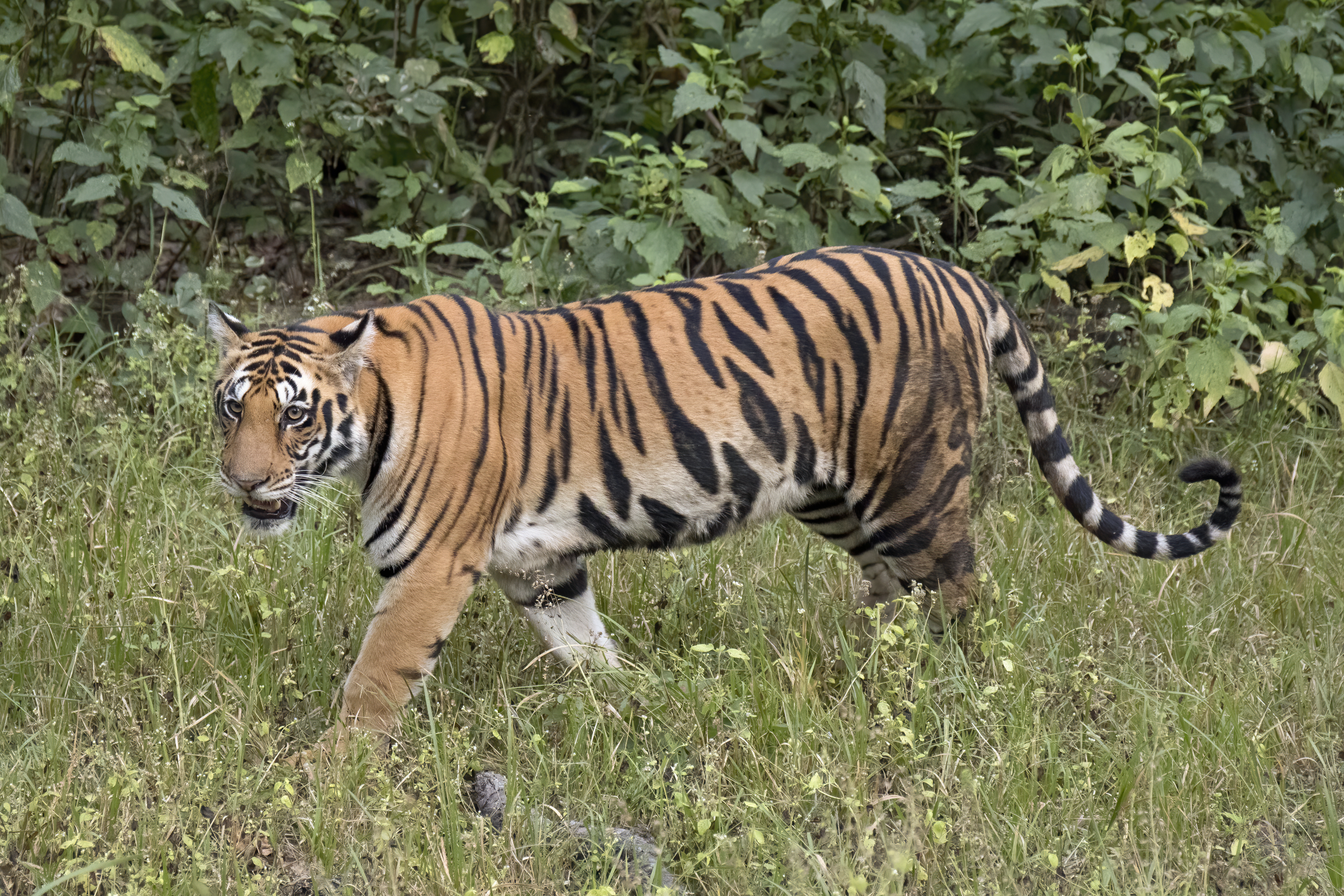 Bengal tiger (Panthera tigris tigris) female, Kanha National Park, India